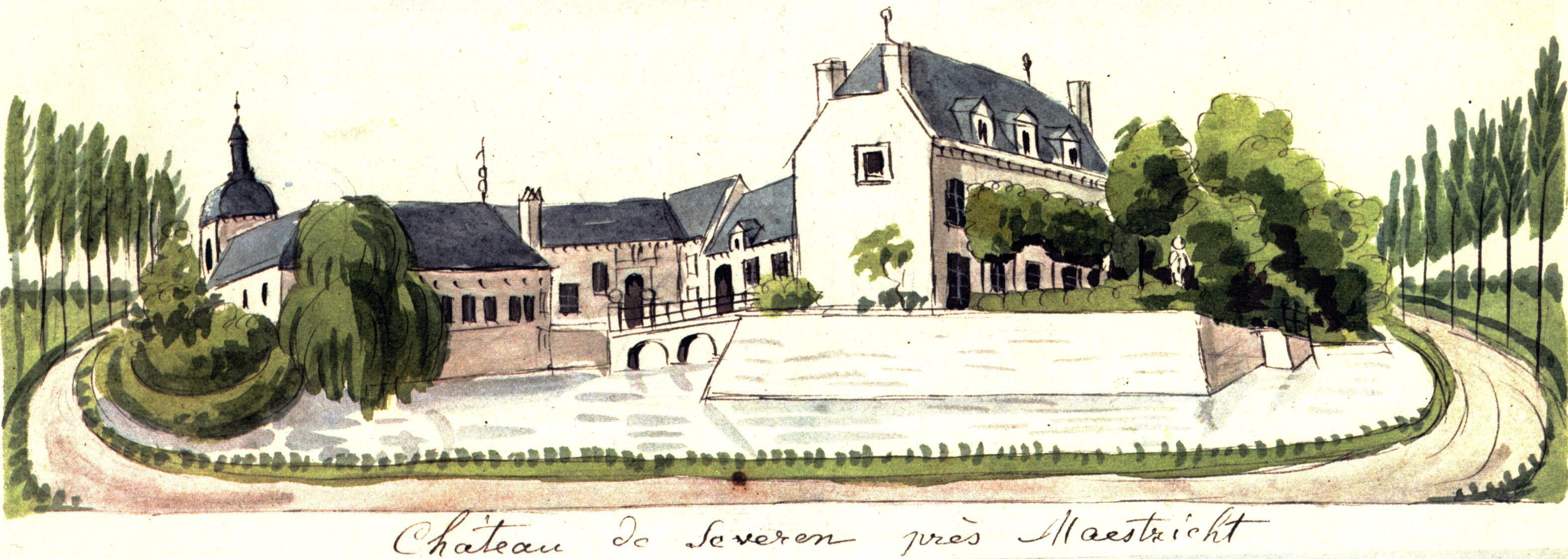 View of Severen Castle in Amby, Maastricht, the Netherlands. Drawing by Philippus van Gulpen (c 1840-60)